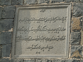 A plaque on the Babuzzafar gate of Quila in Beed city.